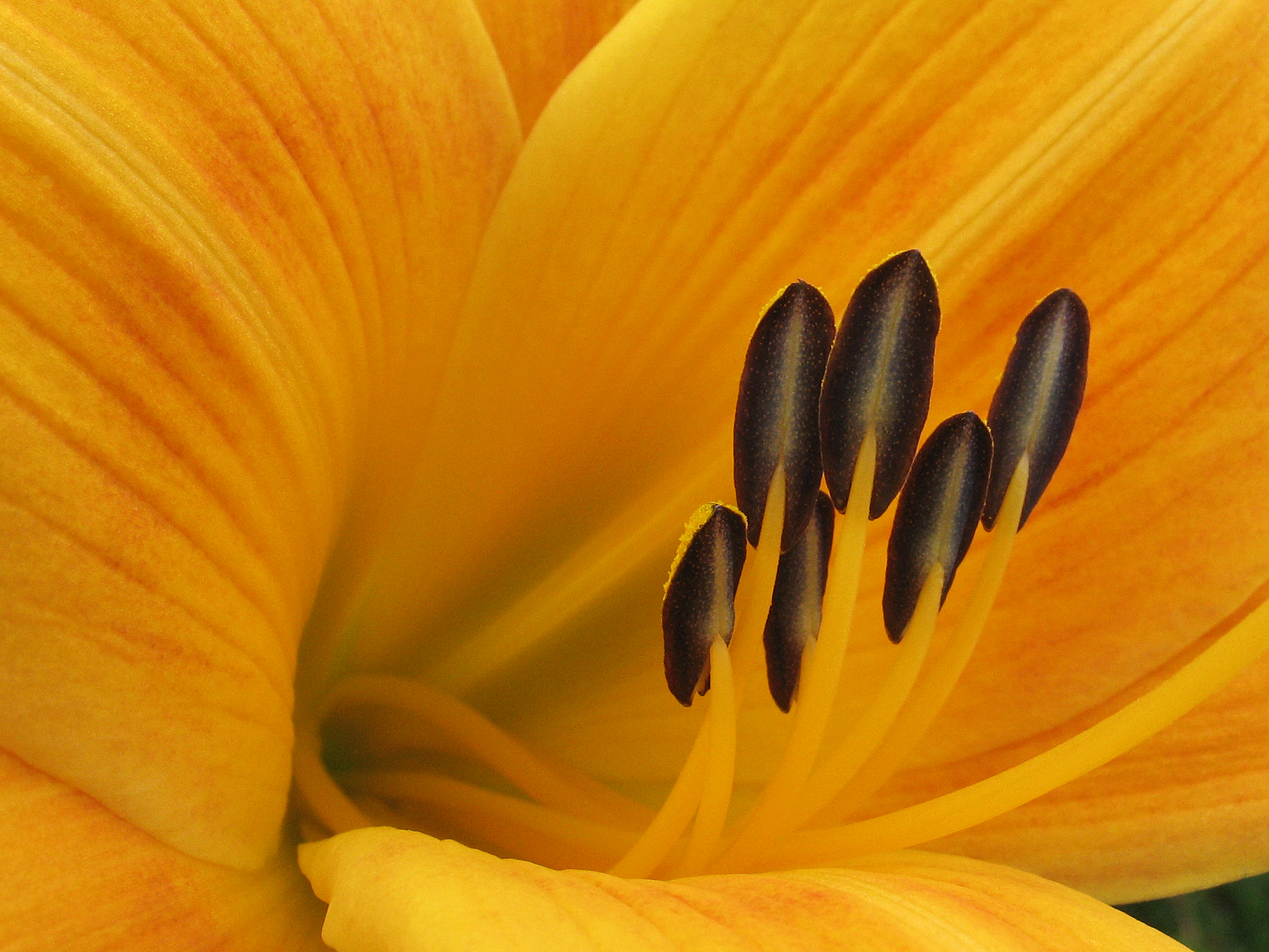 Yellow Day Lilly (Hemerocallis lilioasphodelus)